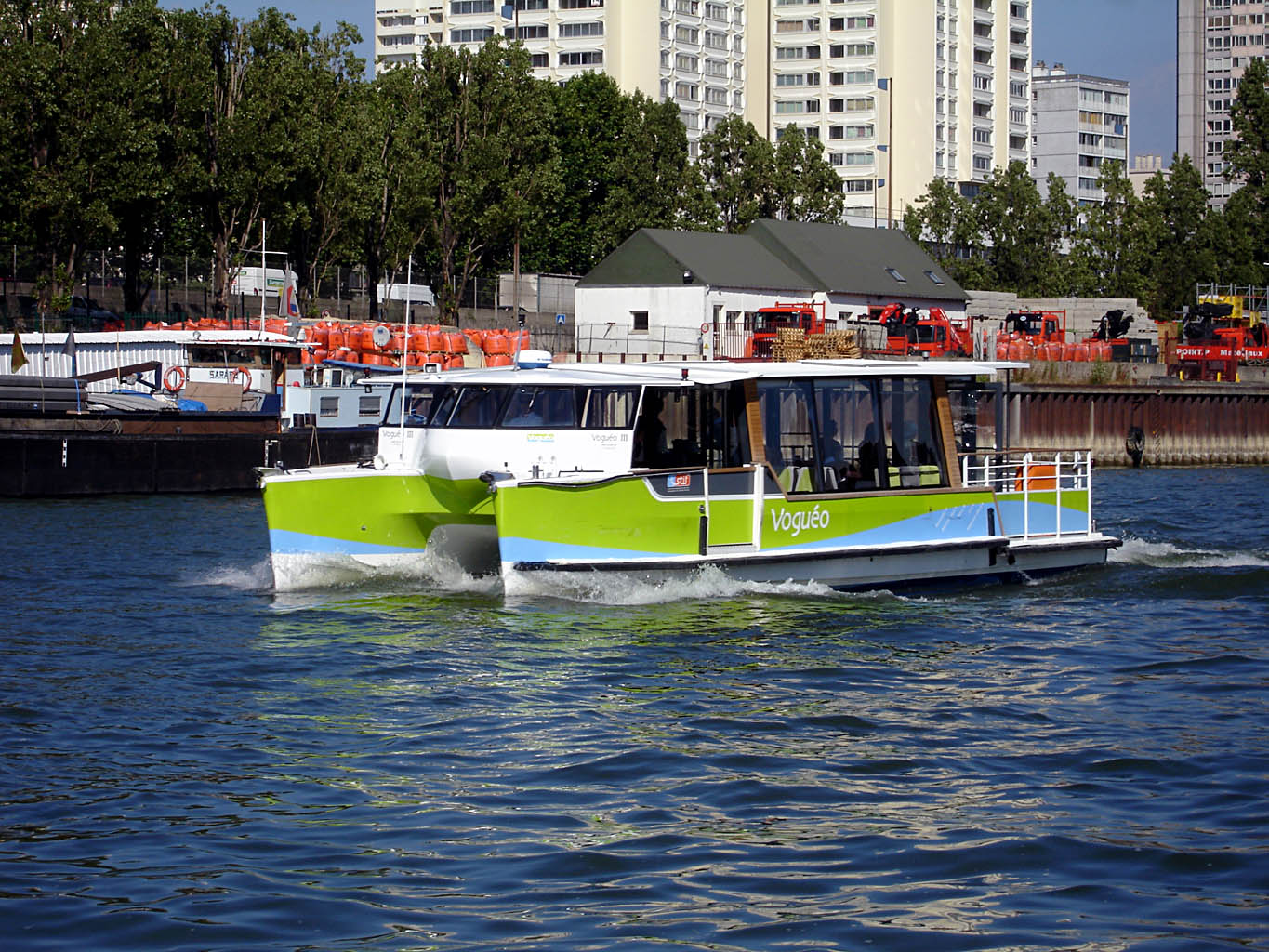 The river shuttle Voguéo, on the river Seine in Paris, France